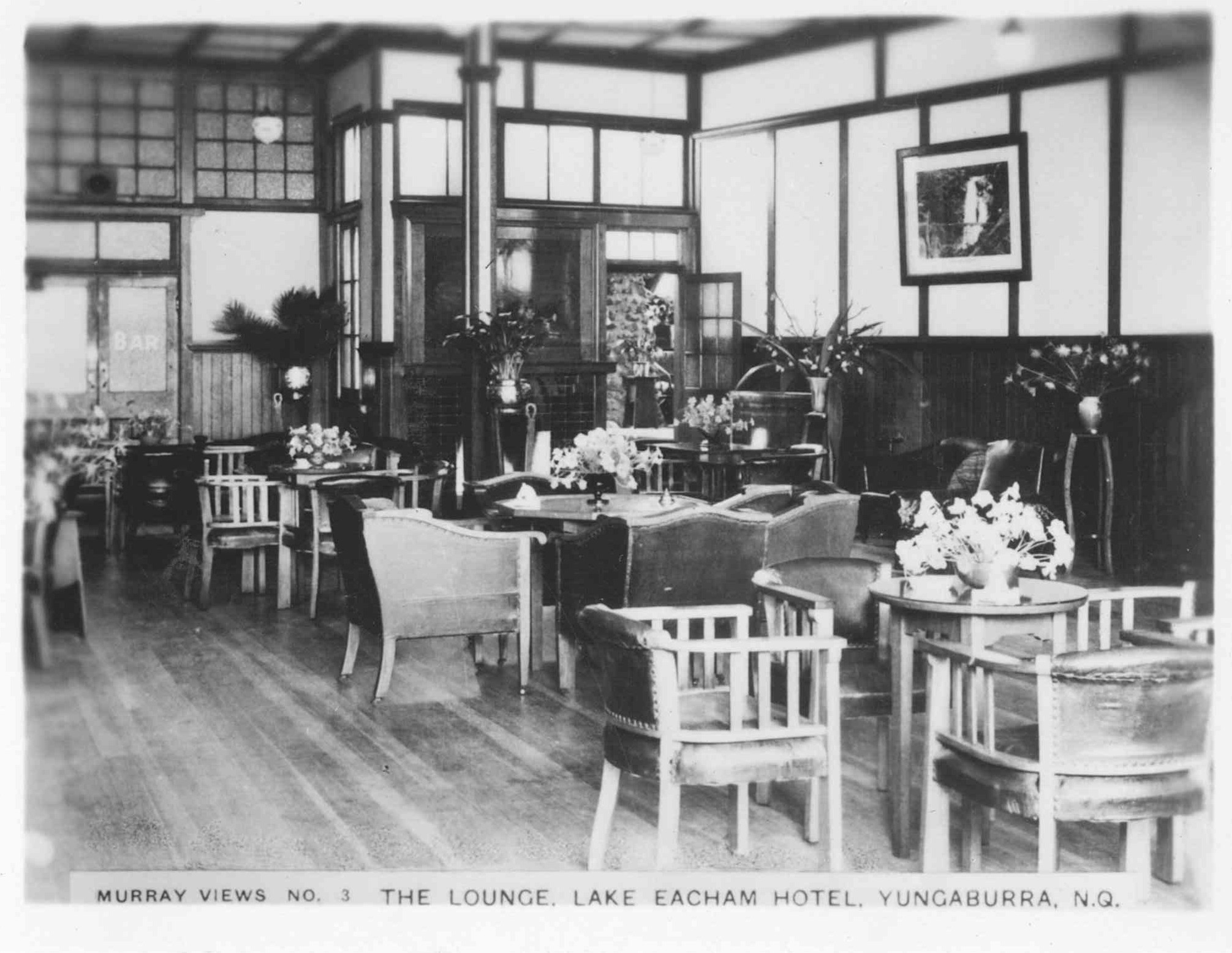 A photo of The Eacham Hotel c1940